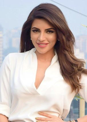 Shama Sikander snapped in Mumbai.